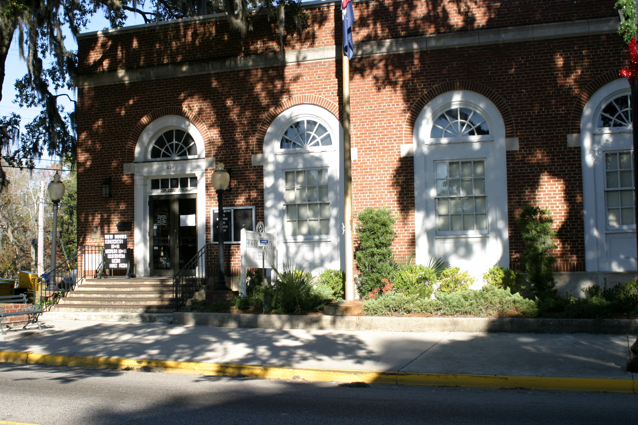 Horry County museum, Conway, South Carolina; formerly the post office, listed on the National Register.